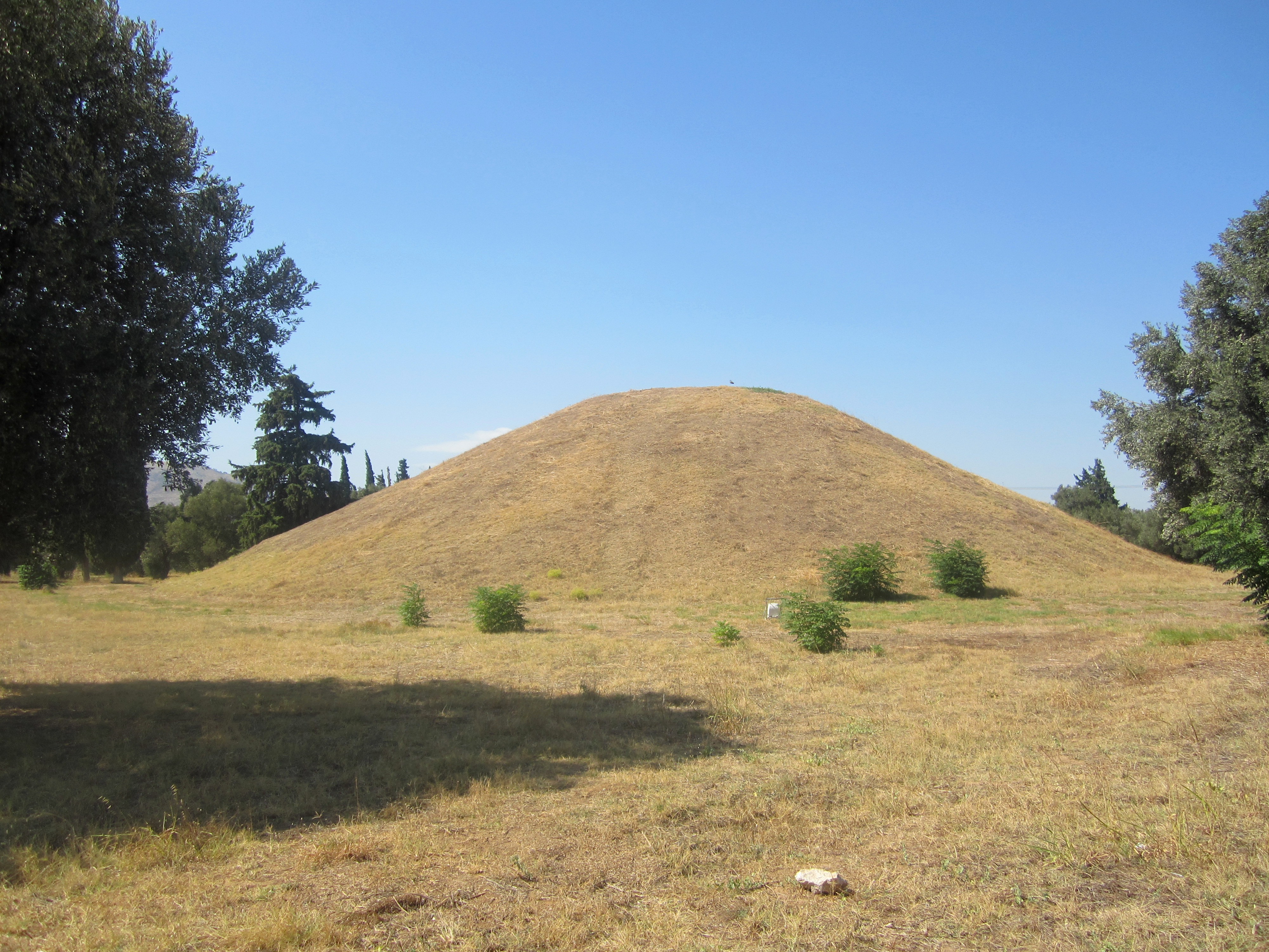 Tomb of the Athenians, also known as Soros, Marathon (Marathonas), Attica, Greece.